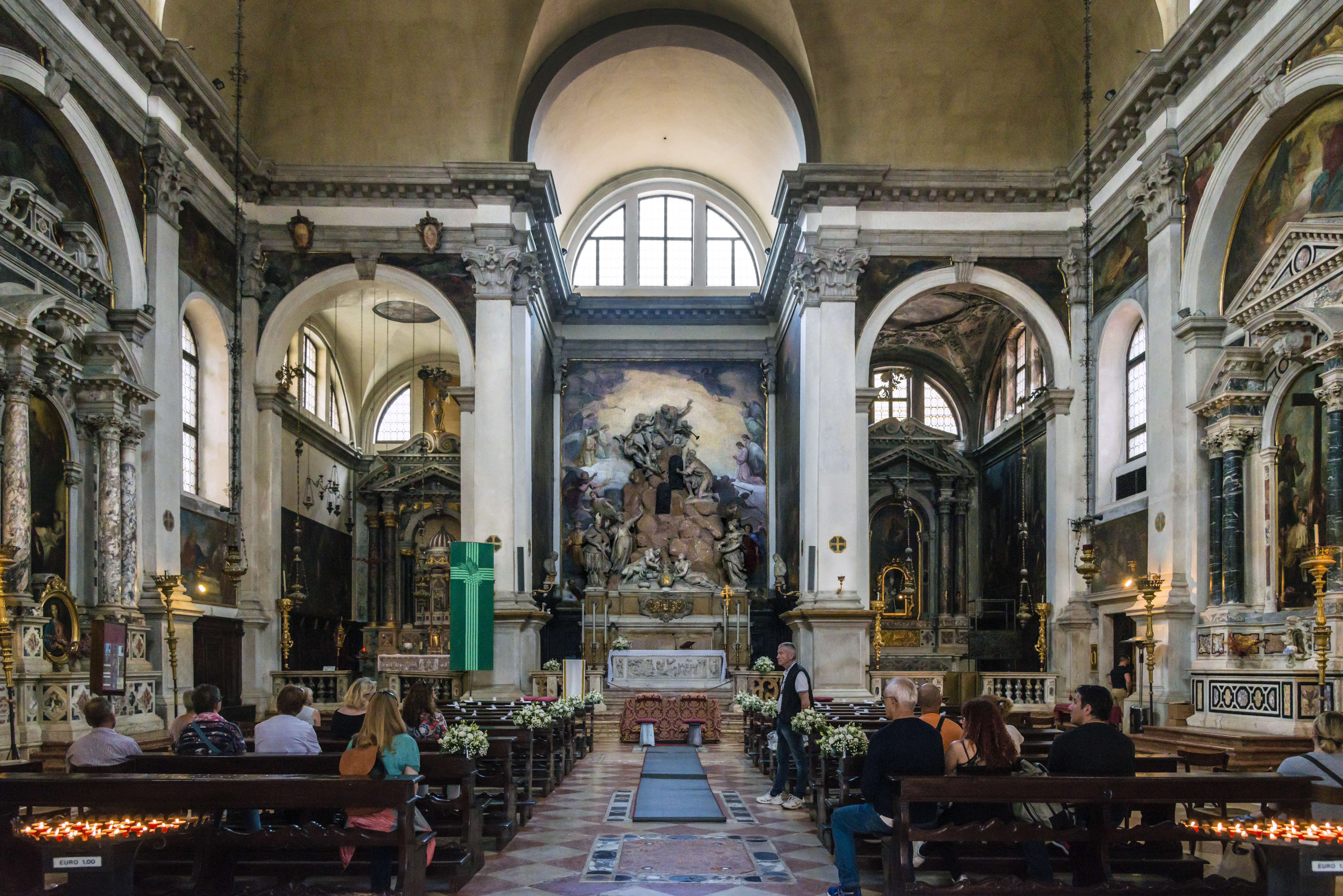 San Moisè in Venice - Interior